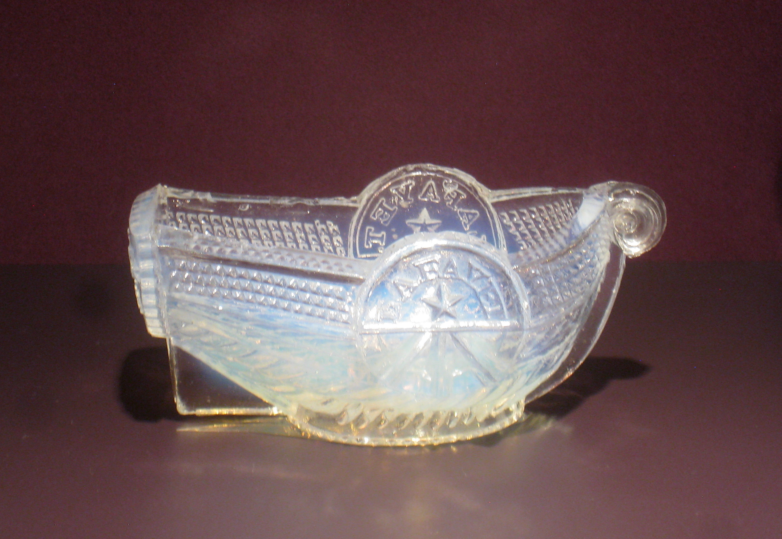 Open salt dish, pressed glass; Boston and Sandwich Glass Company, 1830-1835. Glass exhibited in the DAR Museum, National Society Daughters of the American Revolution, 1776 D Street NW, Washington, DC, USA.